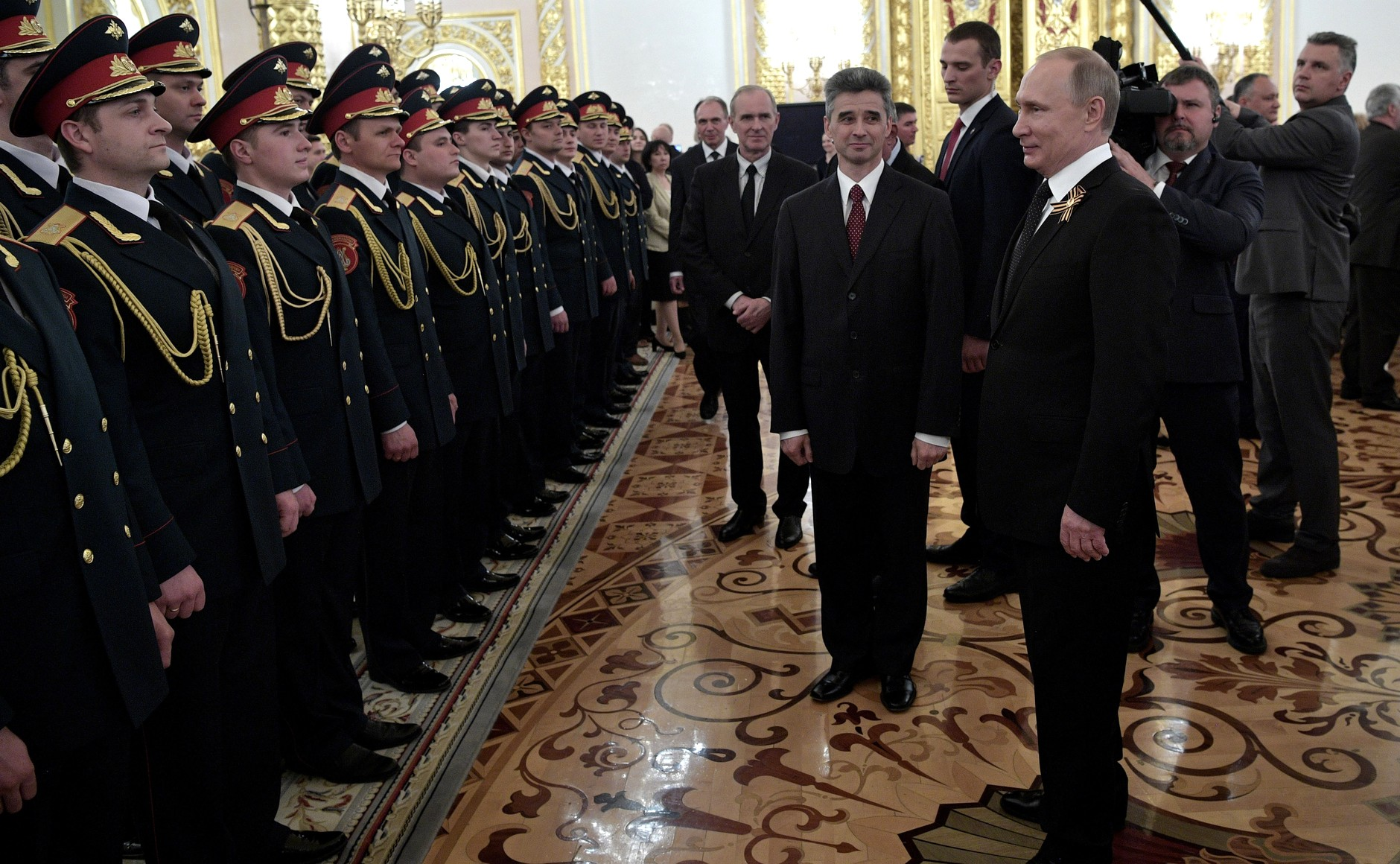 Victory Day reception in the Kremlin 2017-05-09